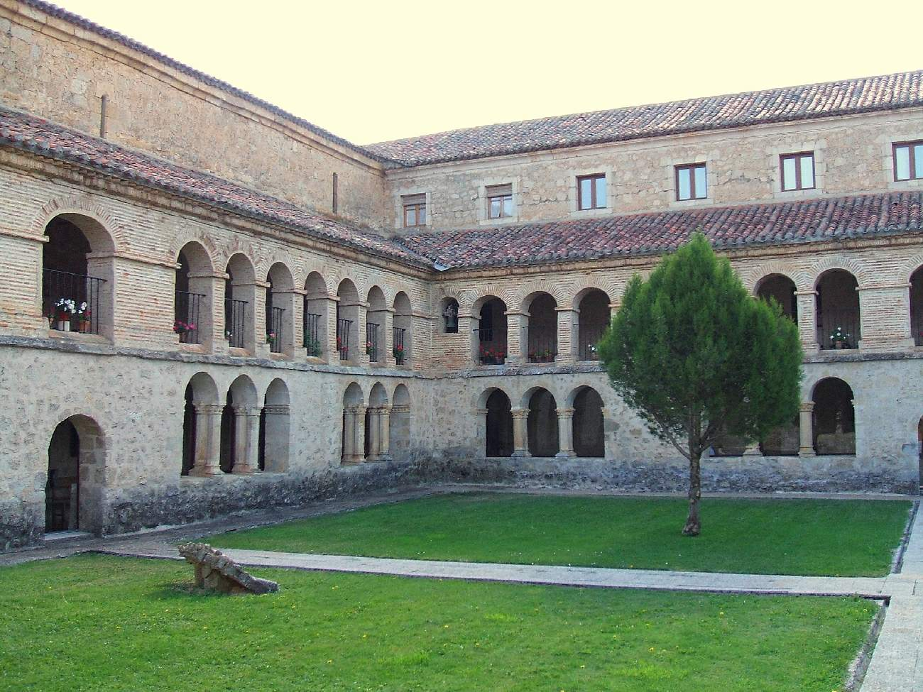 Caleruega - Real Monasterio de Santo Domingo